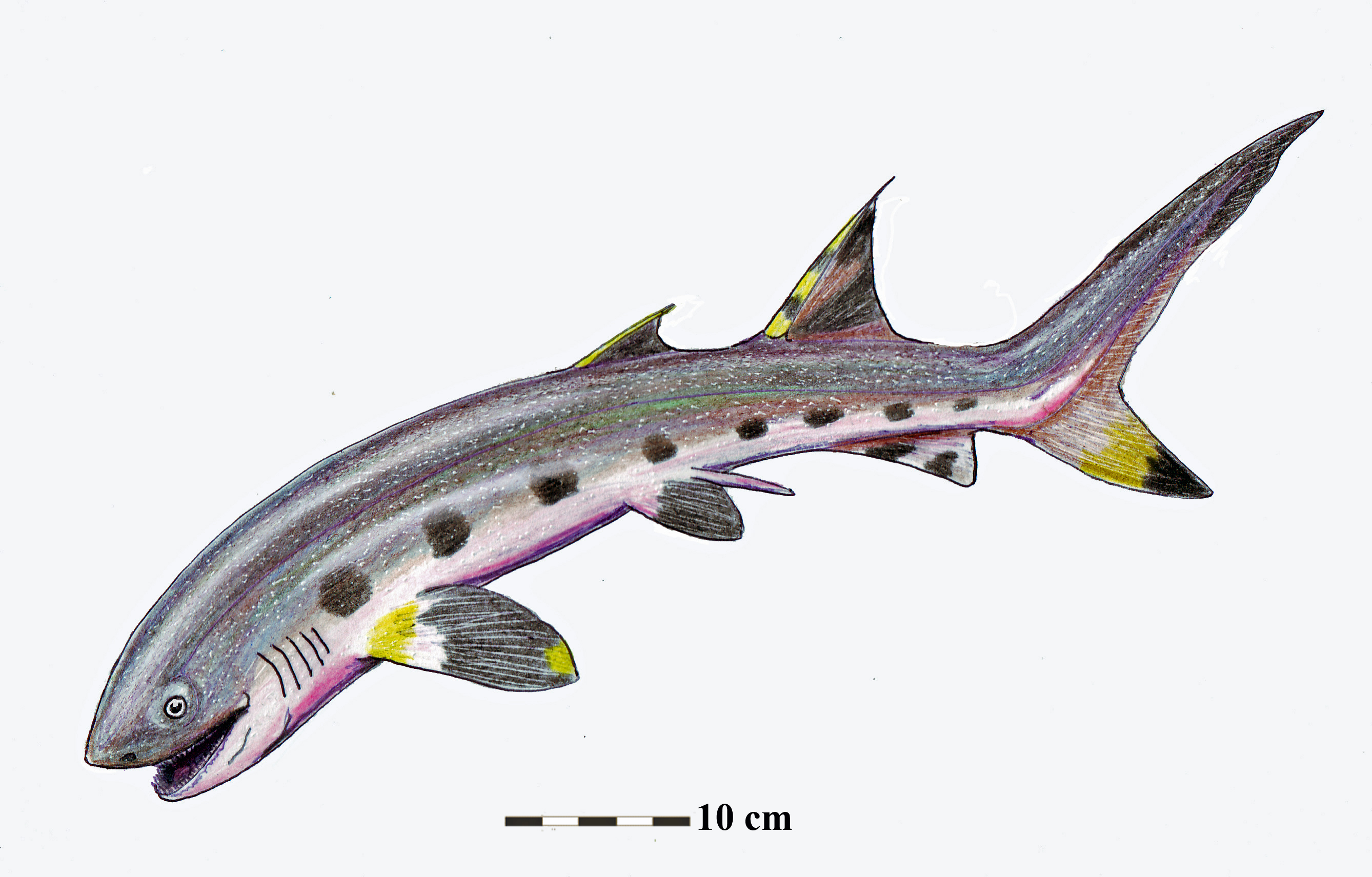 Reconstruction of Hopleacanthus richelsdorfensis, primitive Neoselachian shark from Permian of Germany